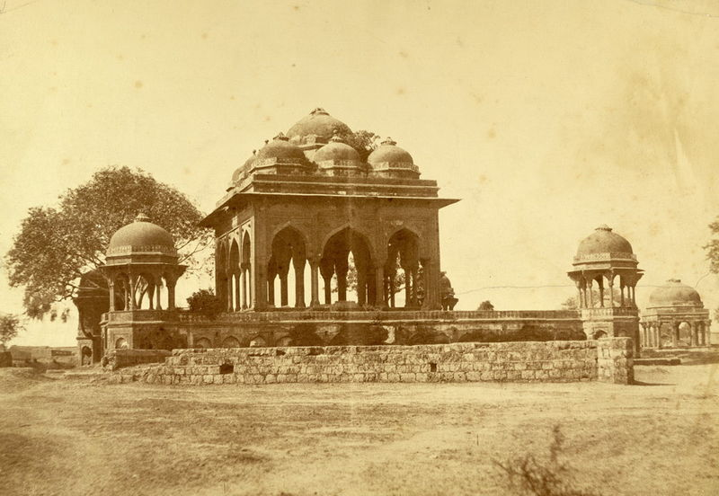 Photograph entitled, "No. 9. Mosque at Meerut said to be the principal resort of the mutineers," taken in 1858 by Major Robert Christopher Tytler and his wife, Harriet, in the aftermath of the Uprising of 1857. The picture is of a mosque in Meerut where the uprising began.